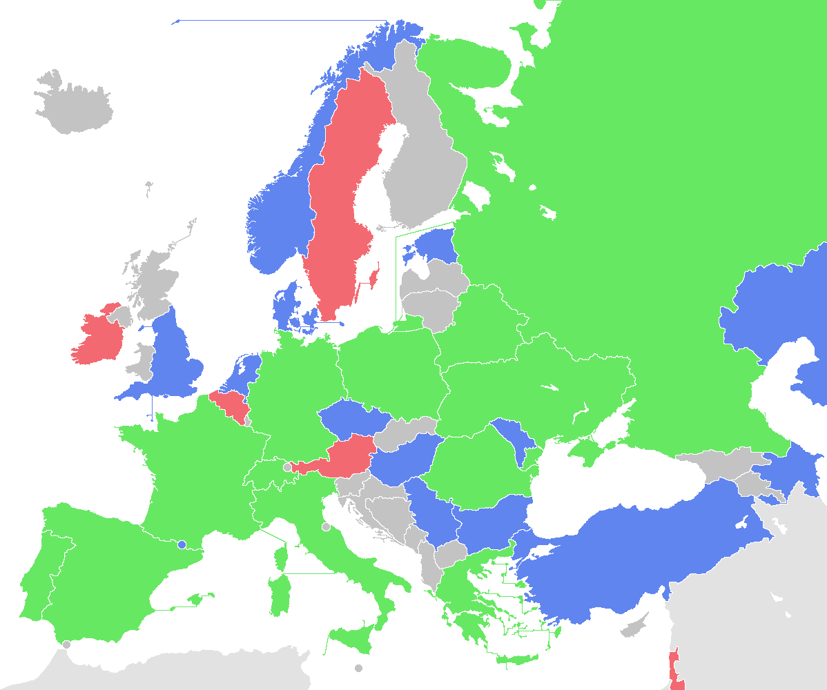 Map of the divisions nations of the 2016 EBSL are competing in